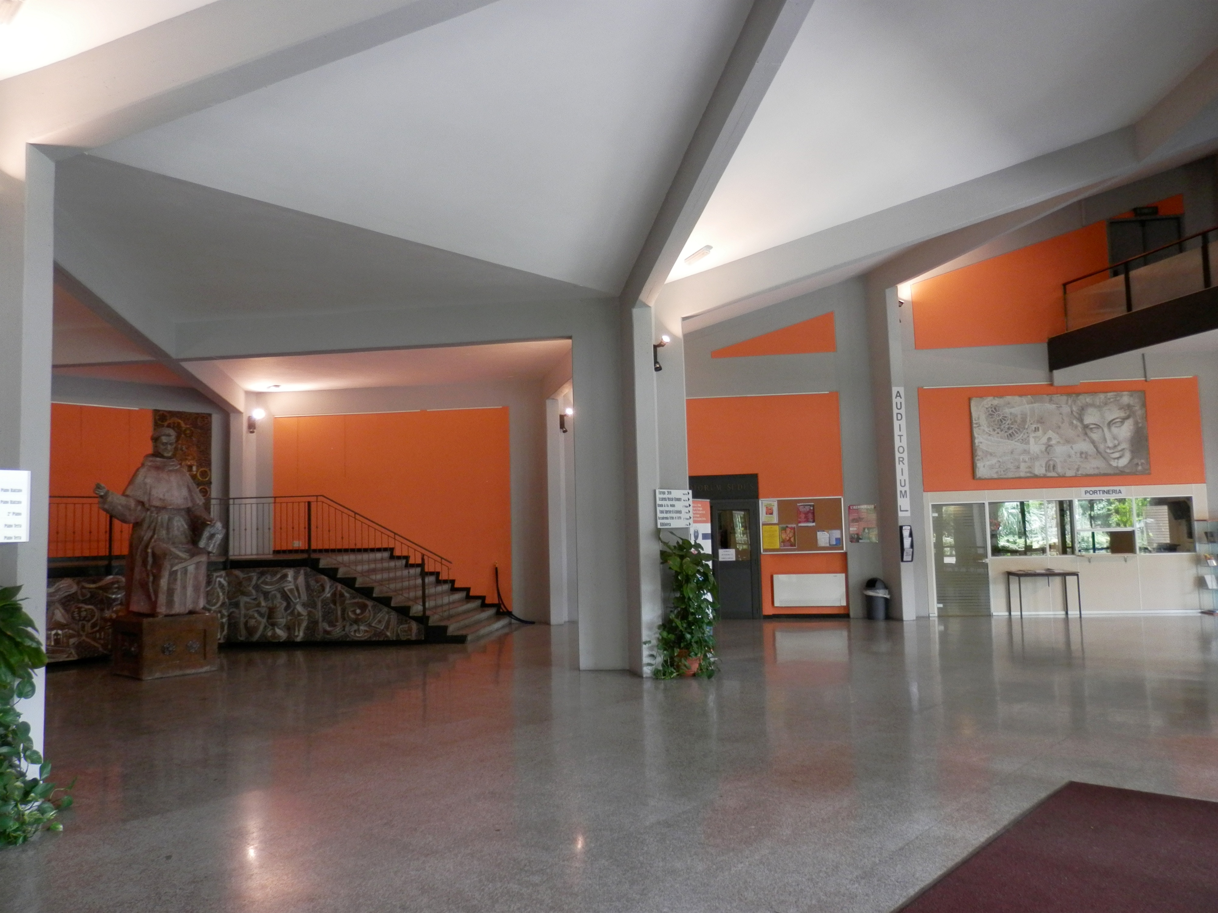 Rome, Pontifical College of Theology 'St. Bonaventure' - reception hall